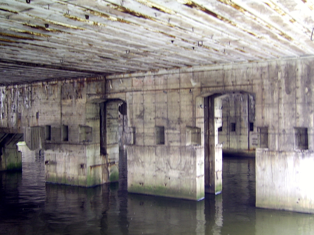 Inside of submarine pen "Hornisse", Bremen, Germany